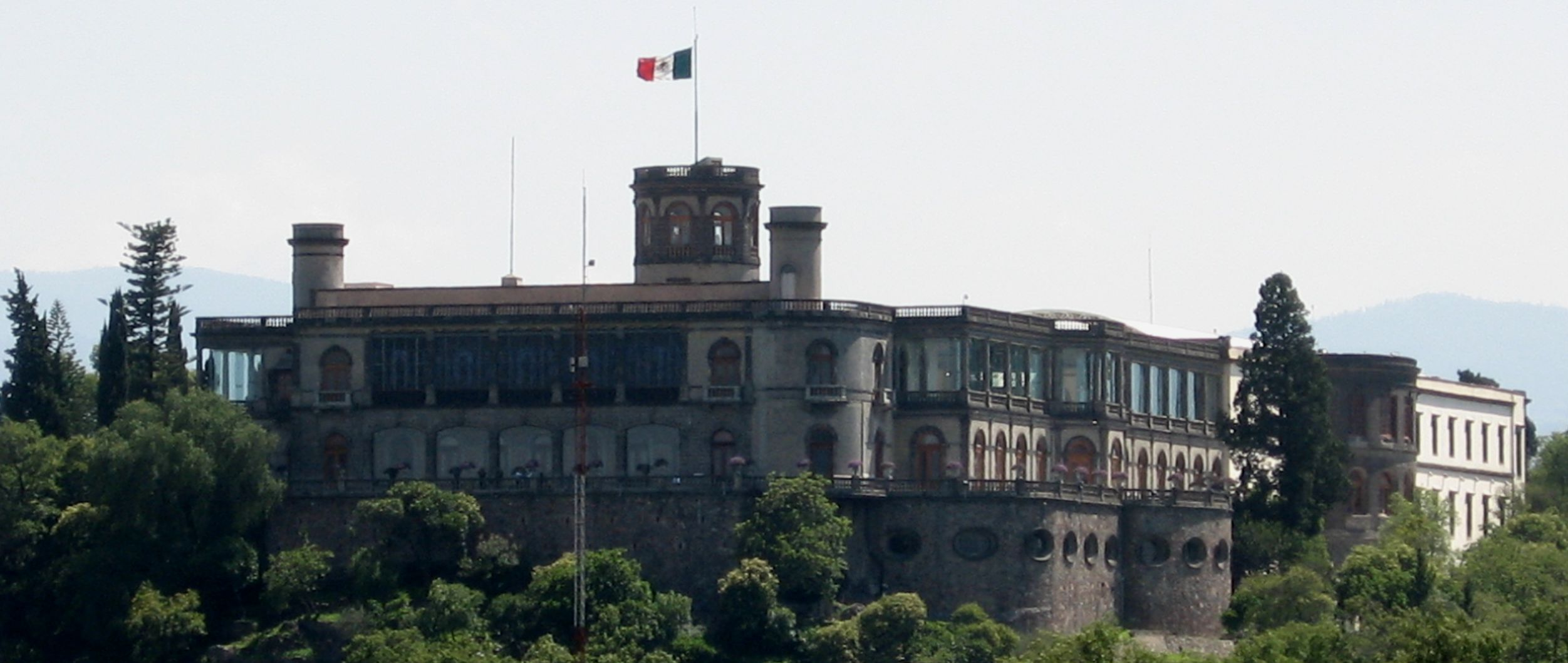 Chapultepec Castle, Mexico, east view